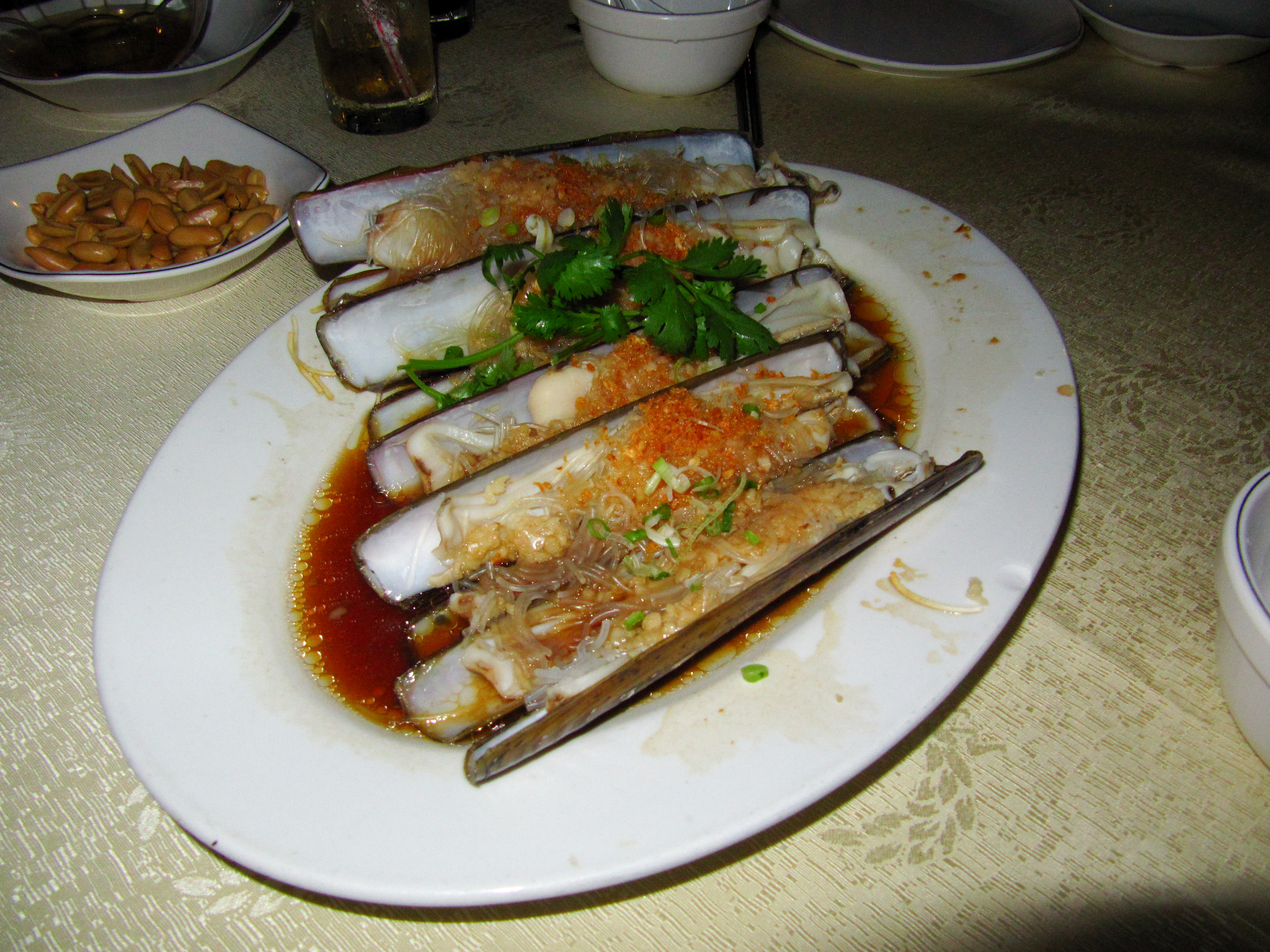 Steamed razor clam